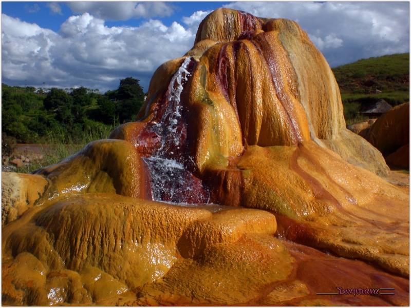 Analavory geyser near hot springs at Ampefy in Itasy, Madagascar